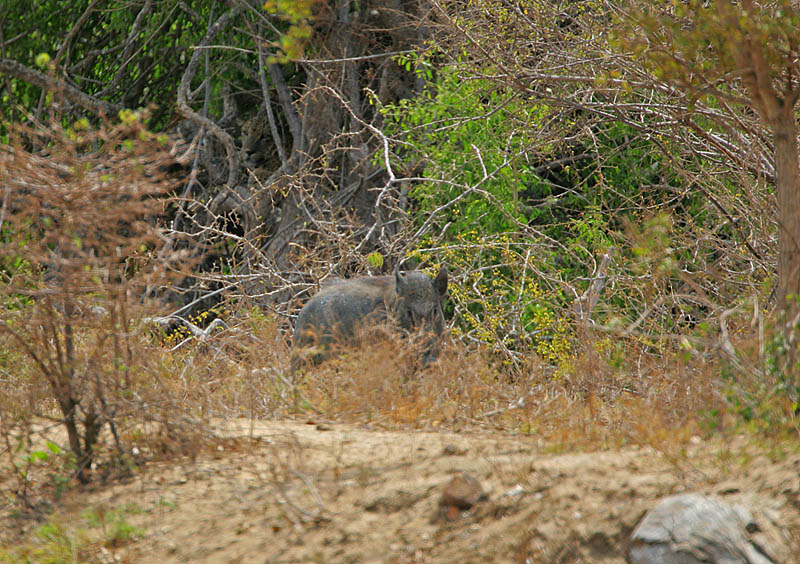 On the face of it a rather poor quality image of a Wild Boar partly hidden by scrub. However the point of this image is to show that all is not what it seems -this Boar is being watched by something altogether more threatening! Place your mouse cursor on the image and all will be revealed! (Image taken in Yala National Park, Sri Lanka).